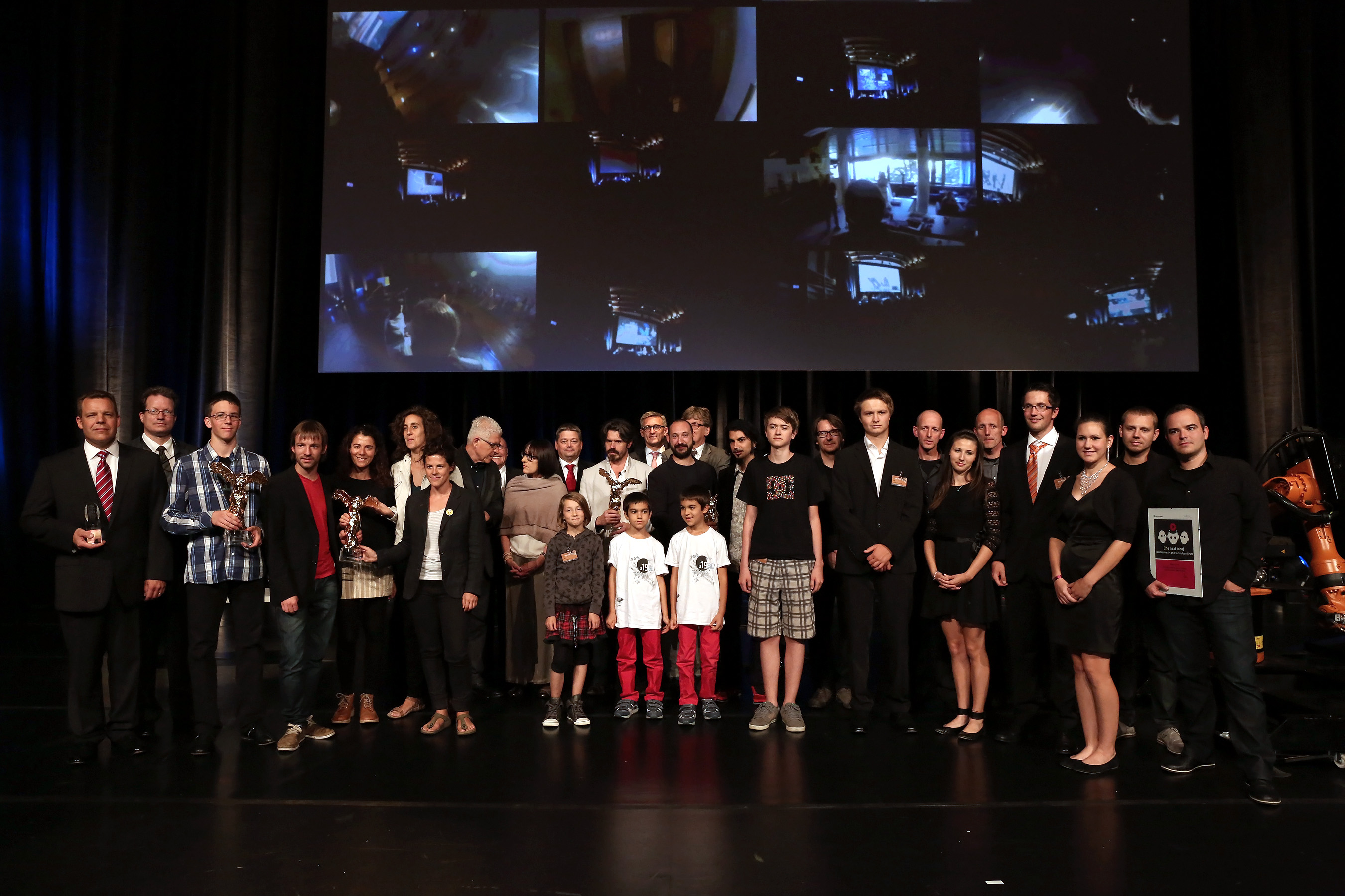 Winners of Prix Ars Electronica 2013; Brucknerhaus, Linz, Upper Austria.